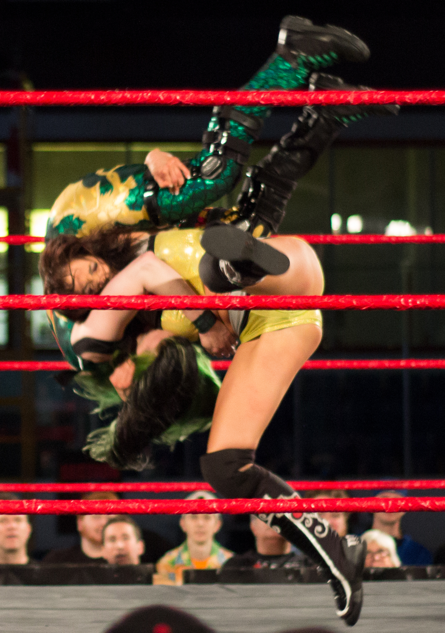 Independent wrestler Cherry Bomb (in gold trunks) executing a Death Valley Driver on MsChif during a Ring of Honor taping at the Ted Reeve arena in Toronto, ON